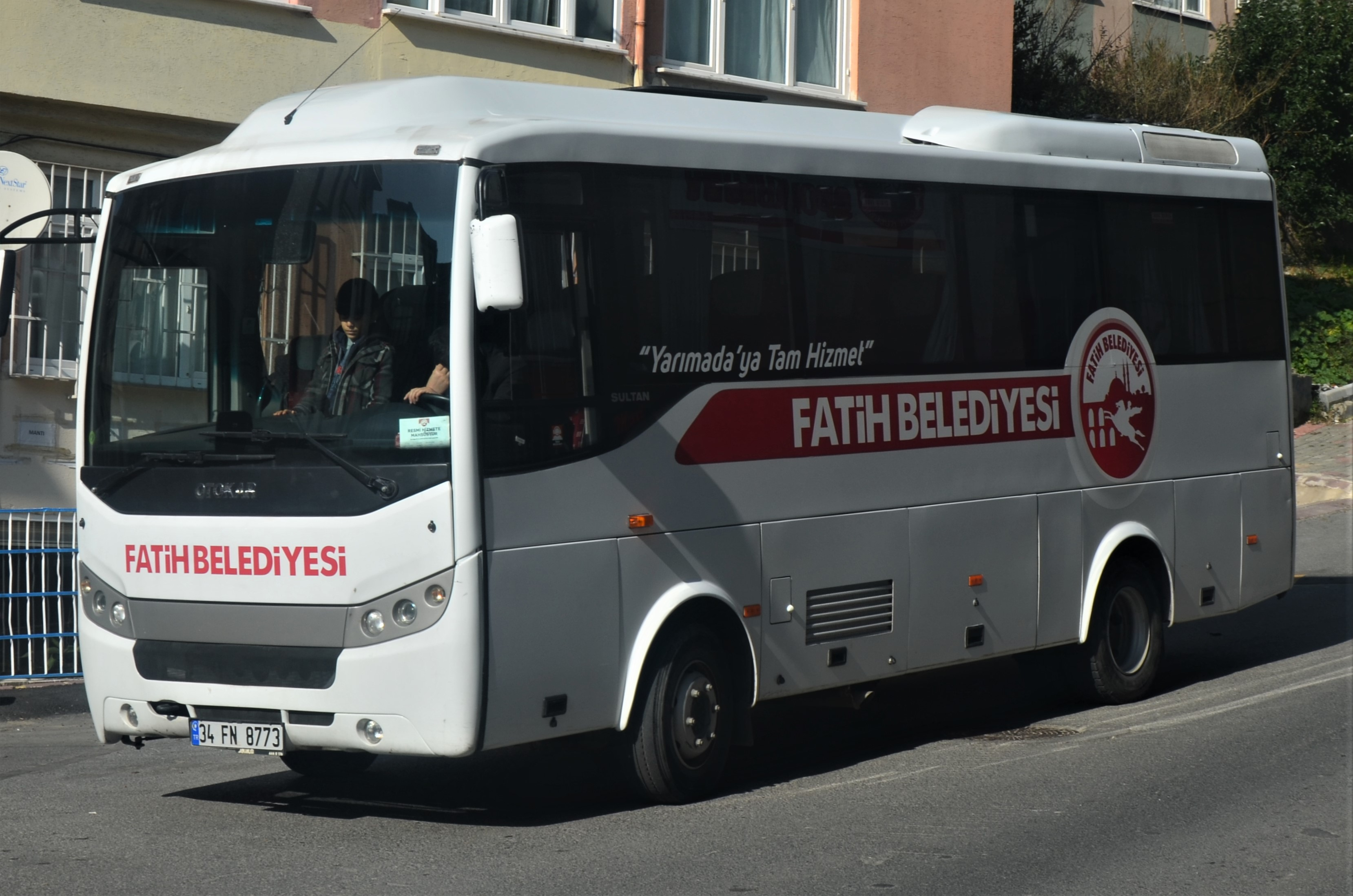 Club bus of Fatih Vatan Spor.